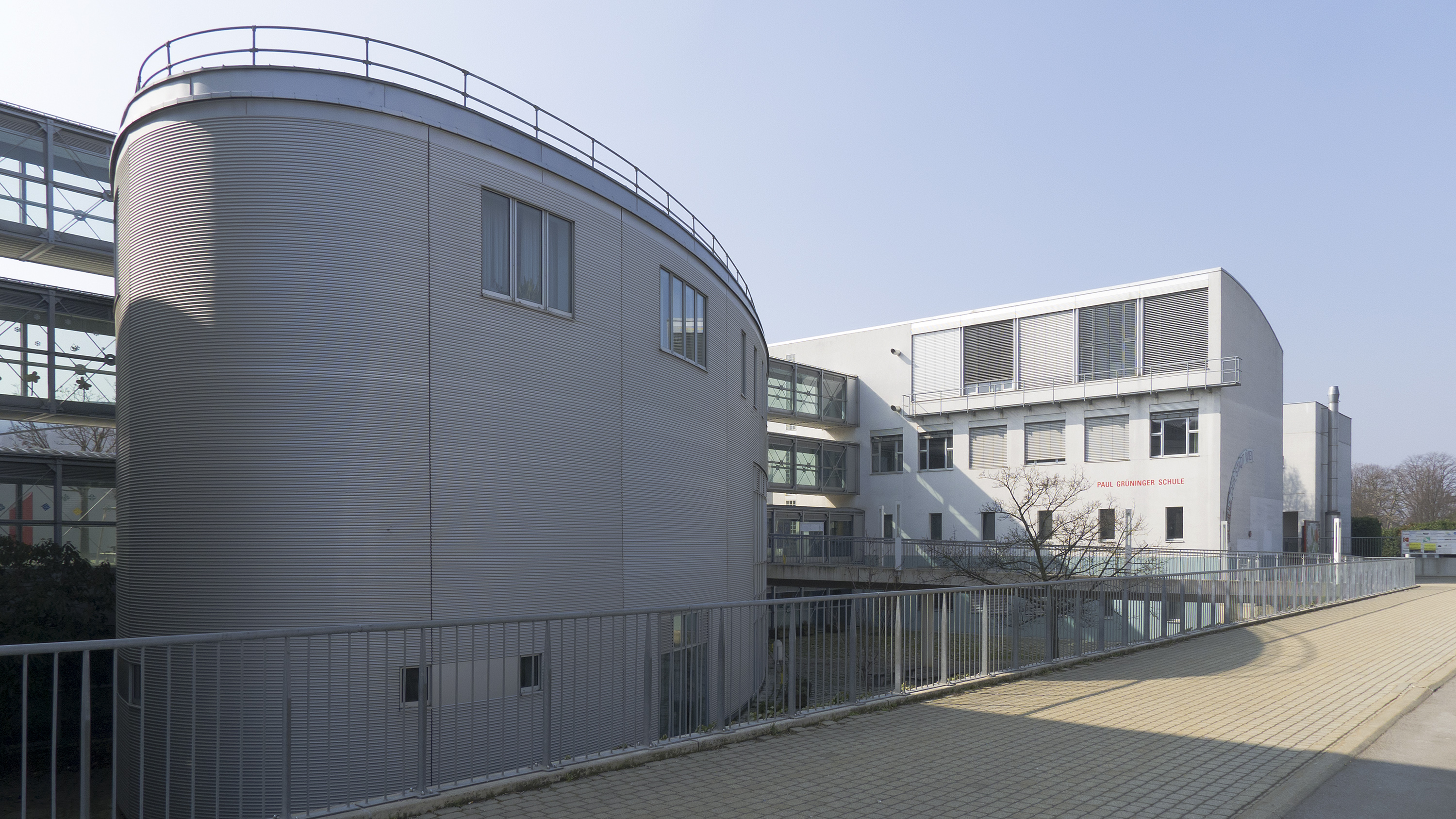 High school Paul-Grüninger-Schule in Vienna 21